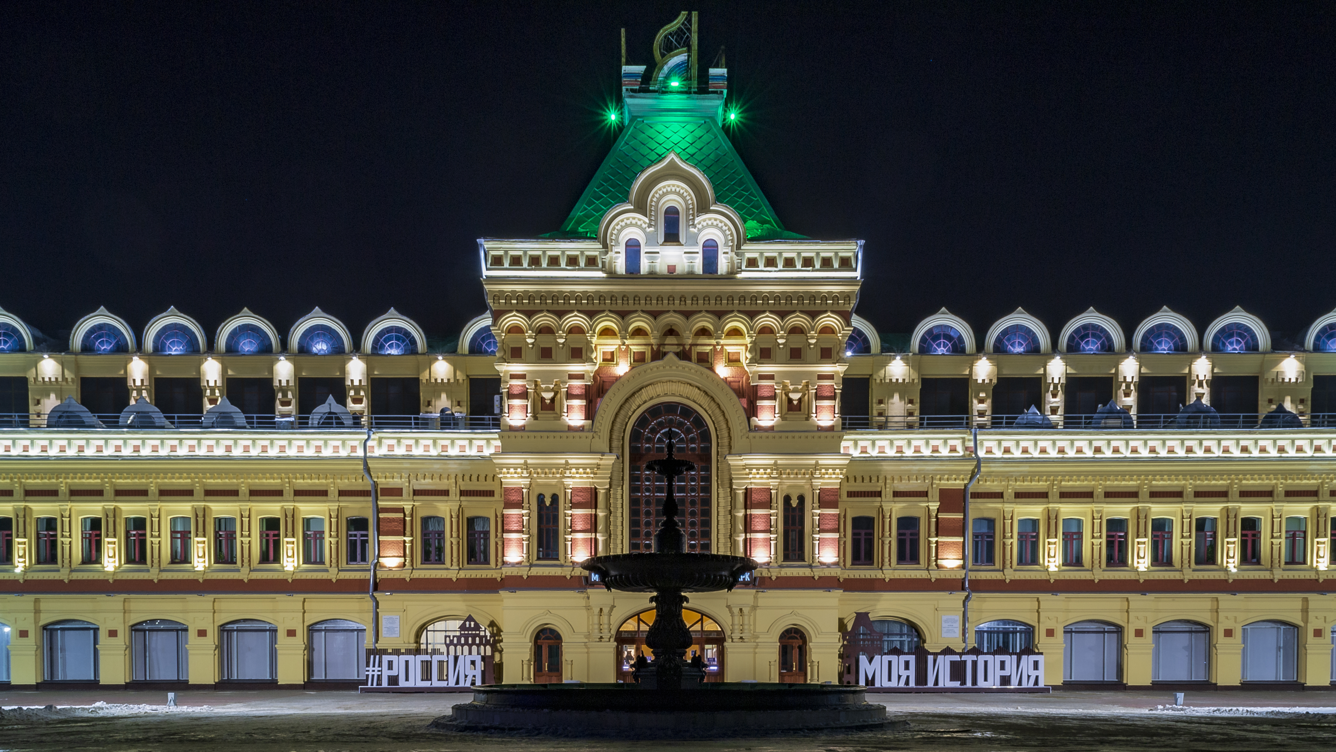 Main building of the Trade Fair at night in Nizhny Novgorod, Russia